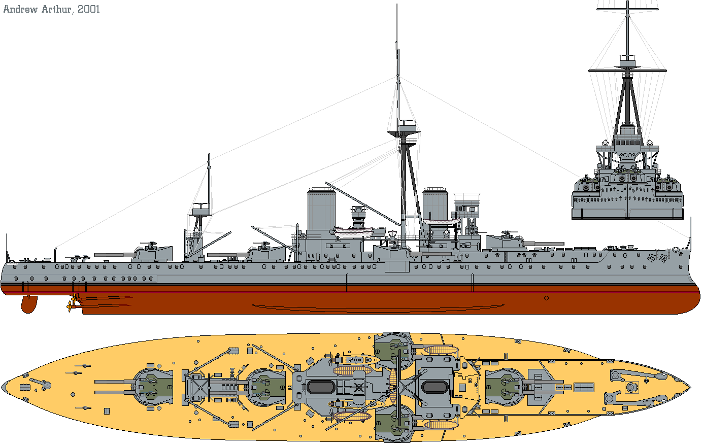 Diagrams depicting HMS Dreadnought, Royal Navy battleship, as she was in 1911. 1/450 scale.